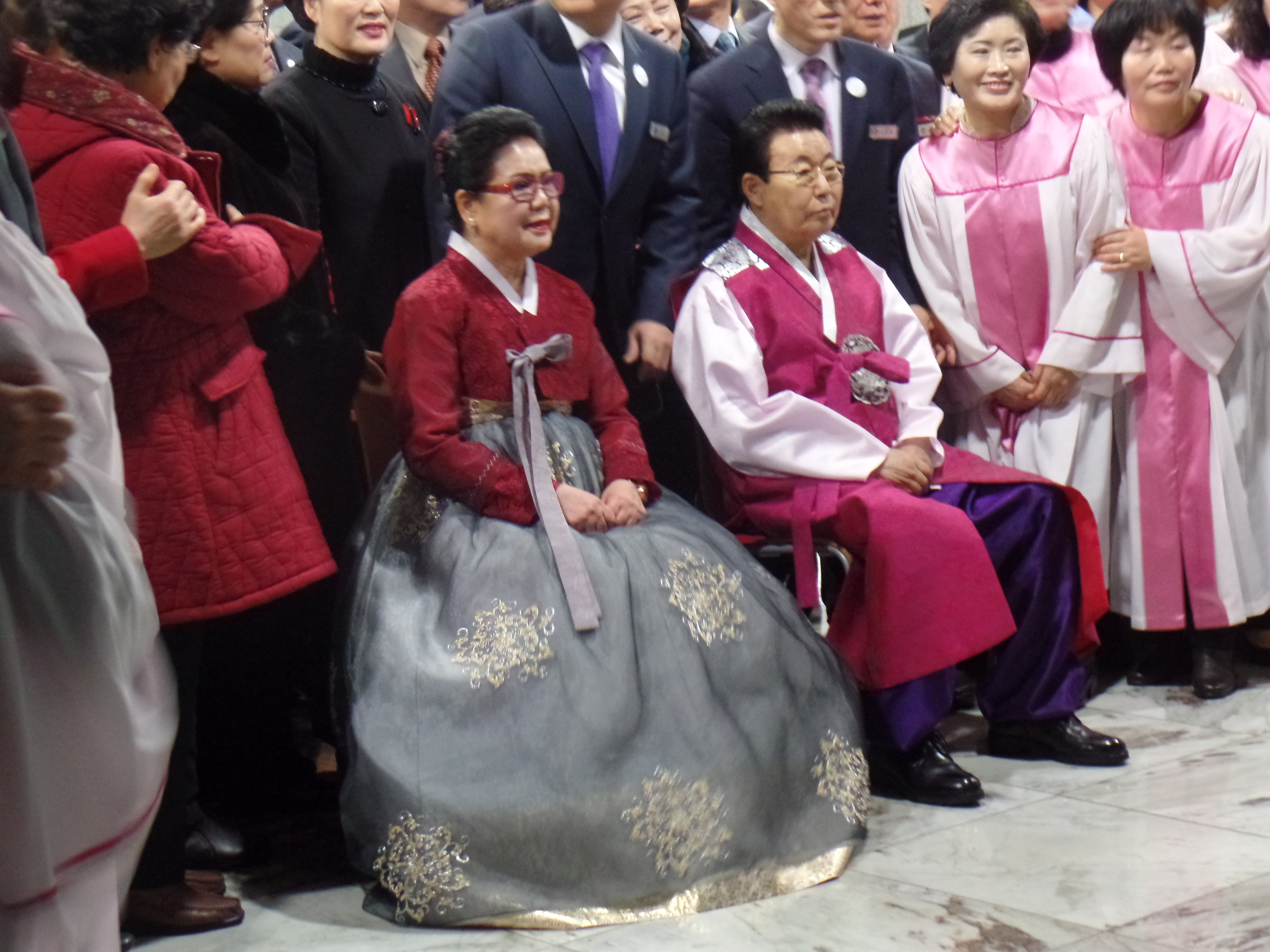 Bishop Jungam Kim Hongdo(Kumnan Methodist Church Co-Pastor) 80th Anniversary at Kumnan Methodist Church - Bishop Kim Hongdo and Bishop Kim's Wife Bae Youngja